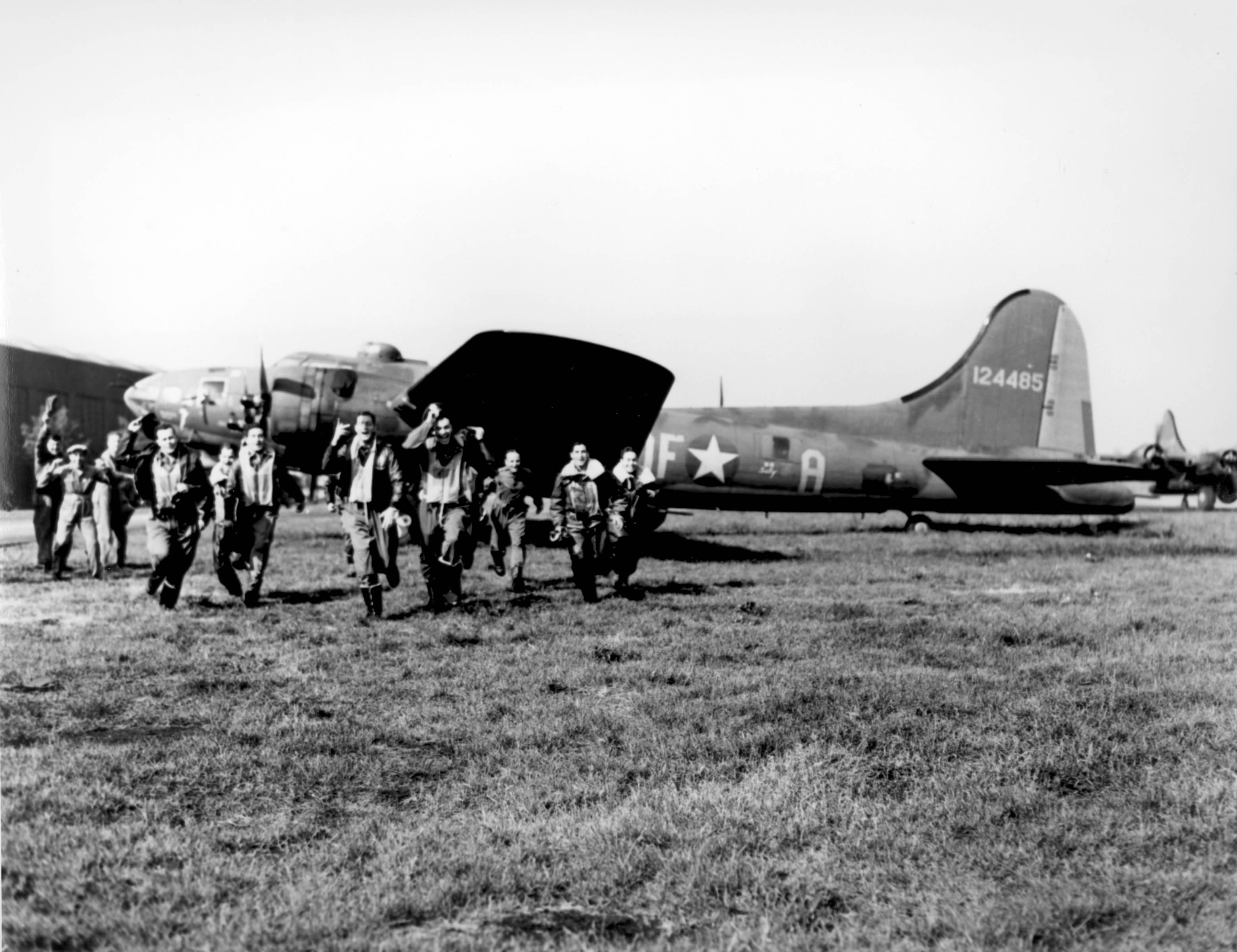 The crew of the B-17F "Memphis Belle", which returned from its 25th operational mission in May 1943. All of the crew received the Distinguished Flying Cross and the Air Medal. In all of its missions, there was only one casualty, a leg wound to the tail gunner. (U.S. Air Force, photo 020930-O-9999G-004.JPG, June 1943)